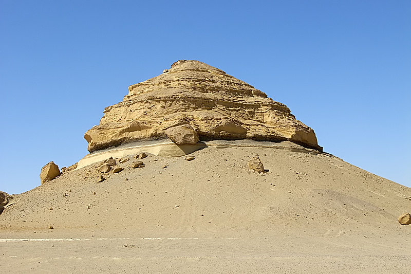 Rock showing die layer succession, Whale Valley (Wadi el-Hitan), Libyan desert, Egypt